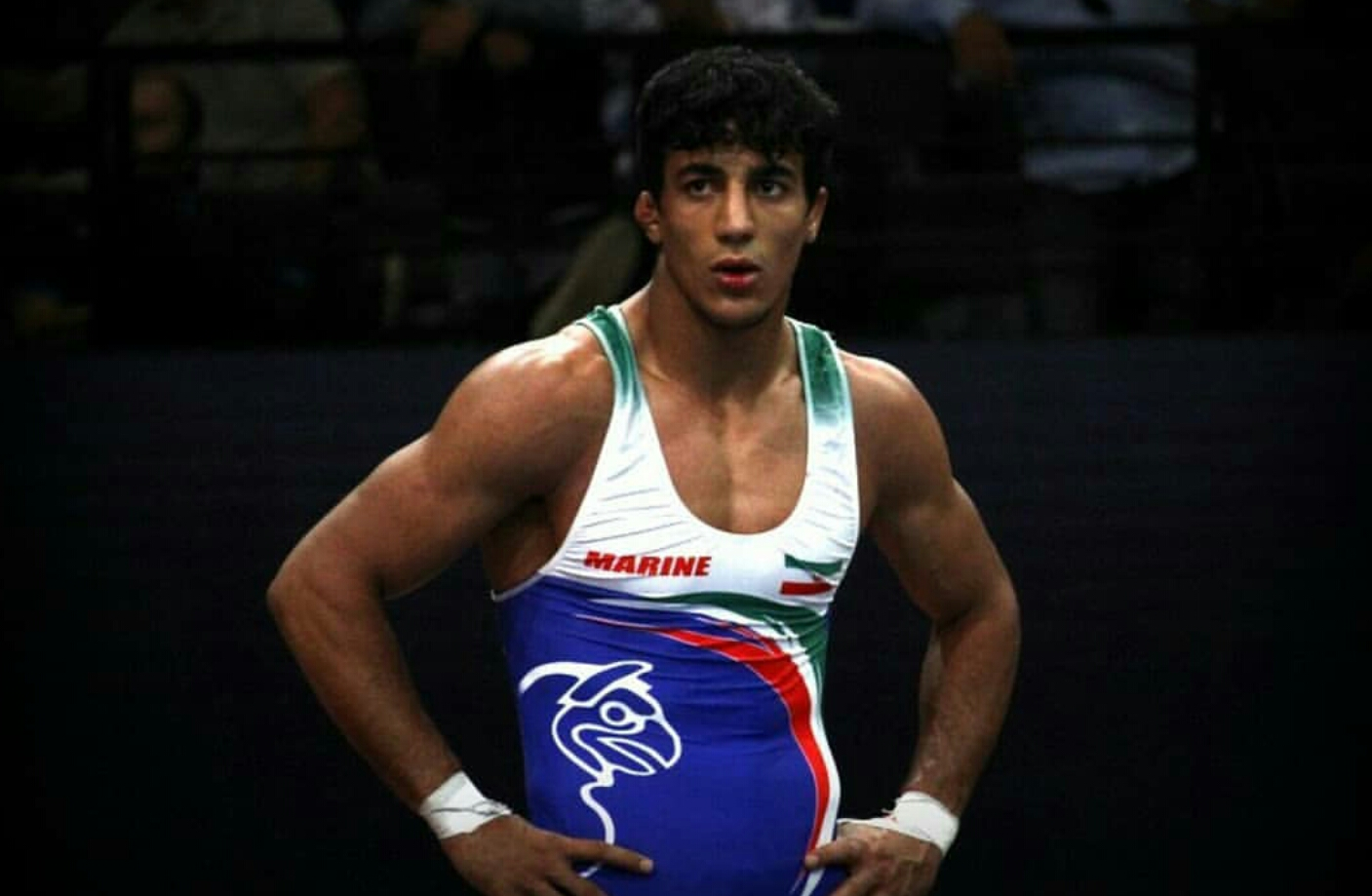 Bronze Medalist Mohammad Ali Geraei 2017 World Championships - Paris